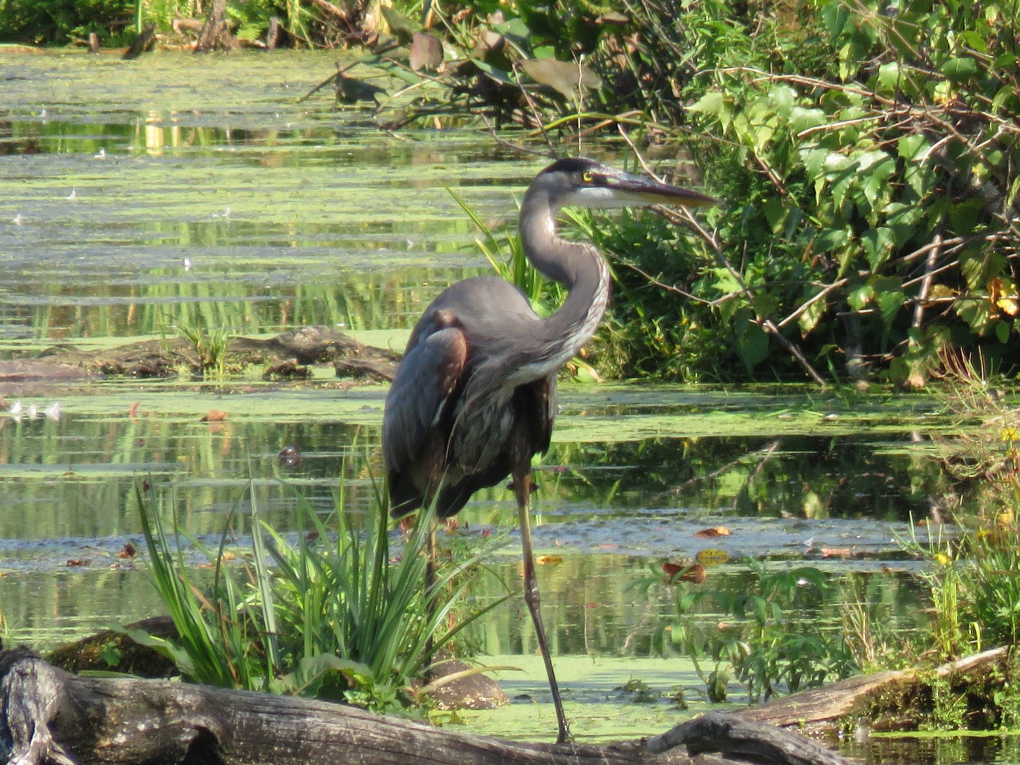 Great Blue Heron at lac Boivin in Granby, Quebec